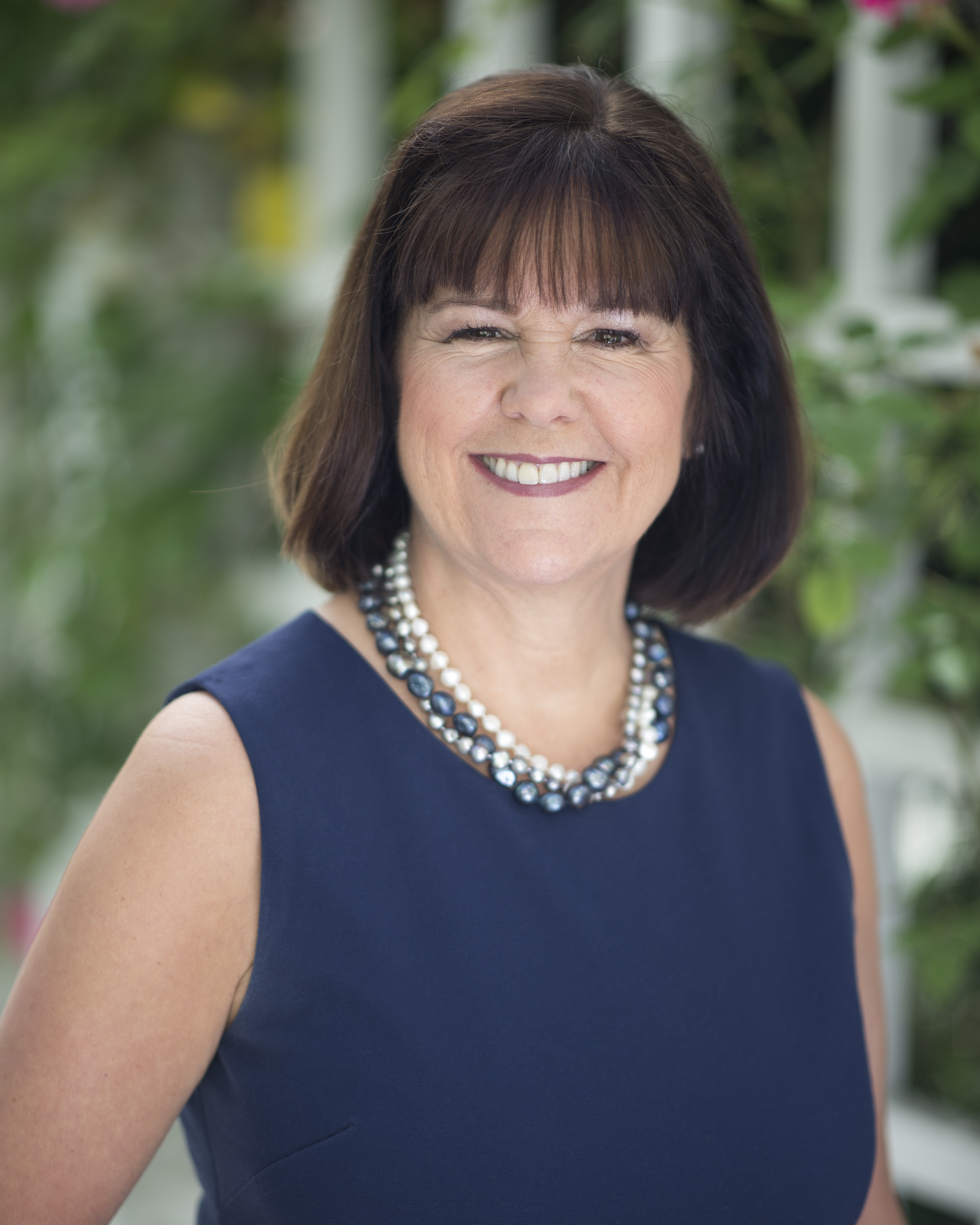 Official Portrait of the Second Lady of the United States, Mrs. Karen Pence. (Official White House Photo by Allaina Parton)